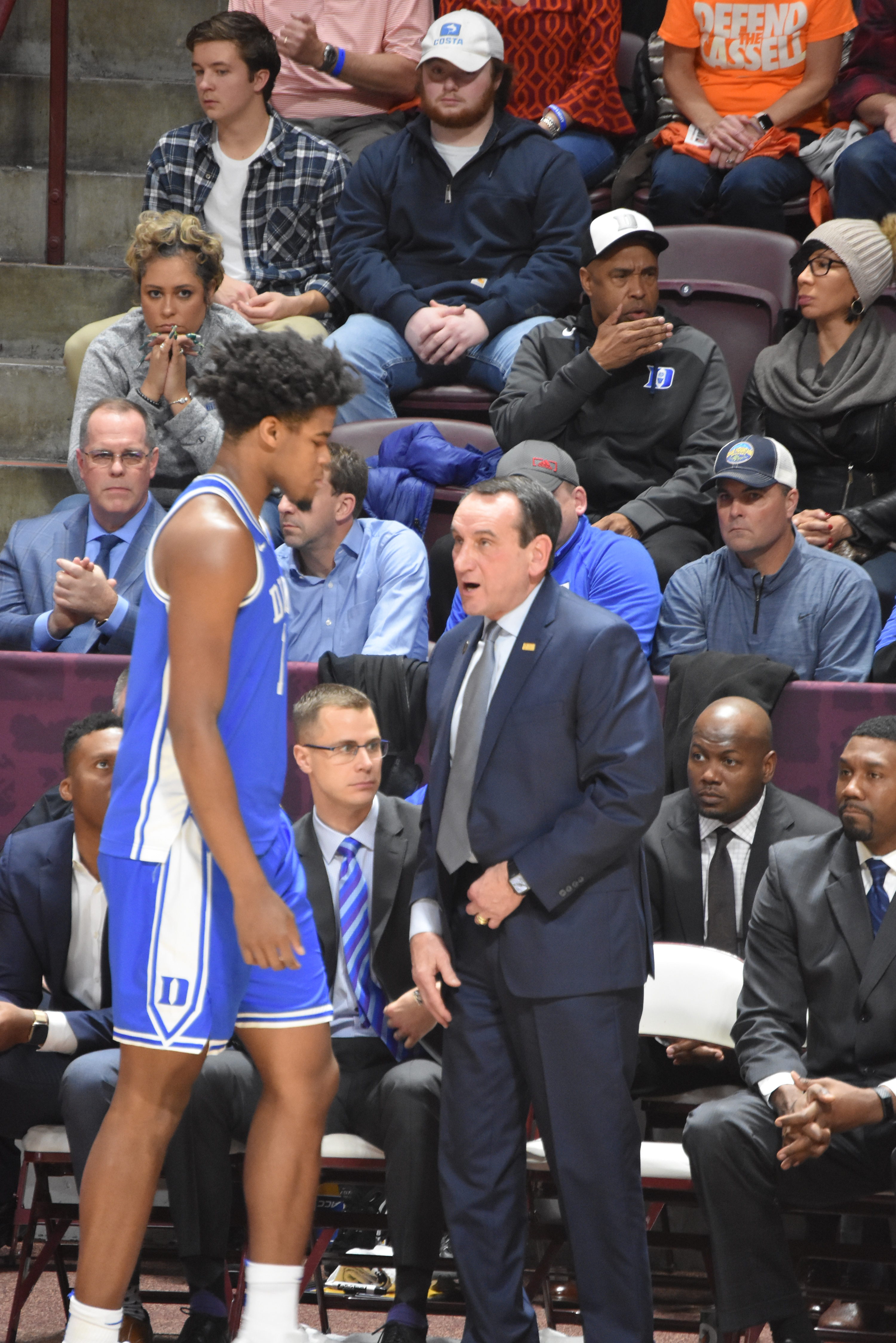 Duke Coach Mike Krzyzewski has some words for Vernon Carey, Jr. as he heads to the Bench at Cassell Coliseum